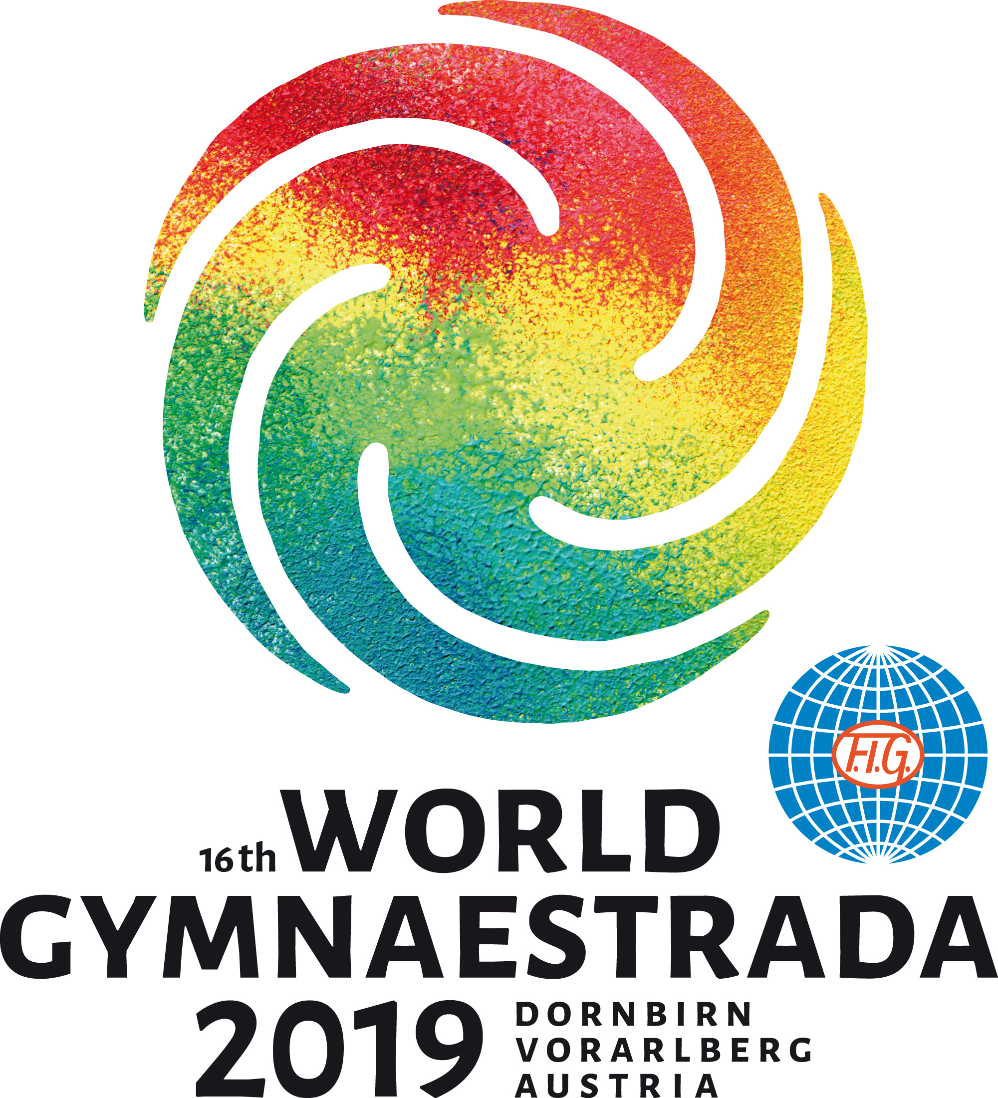 Logo of the world gymnaestrada 2019 in Dornbirn. It fits to the motto "show your colours" and the 5 arms of the logo represent the 5 continents